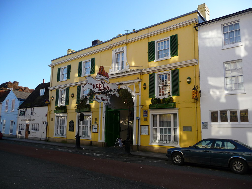 Salisbury - Red Lion Hotel The Red Lion Hotel in Milton street.